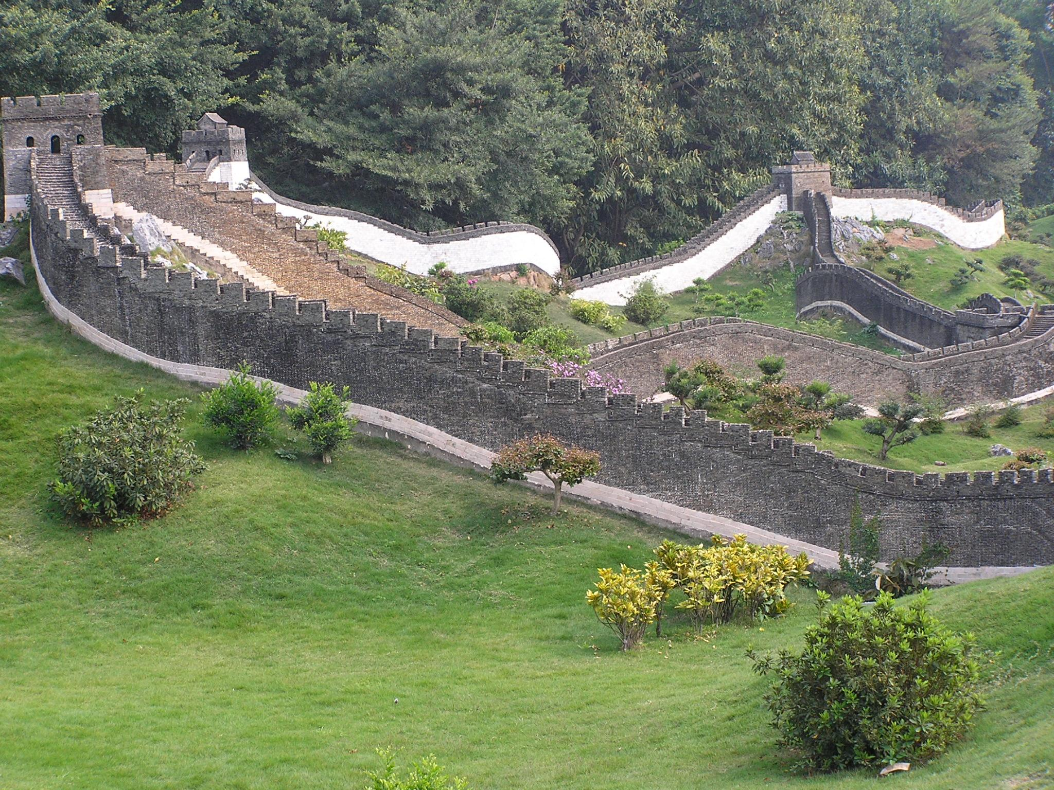 This is a photo of miniature Forbidden City in Splendid China theme park, Shenzhen